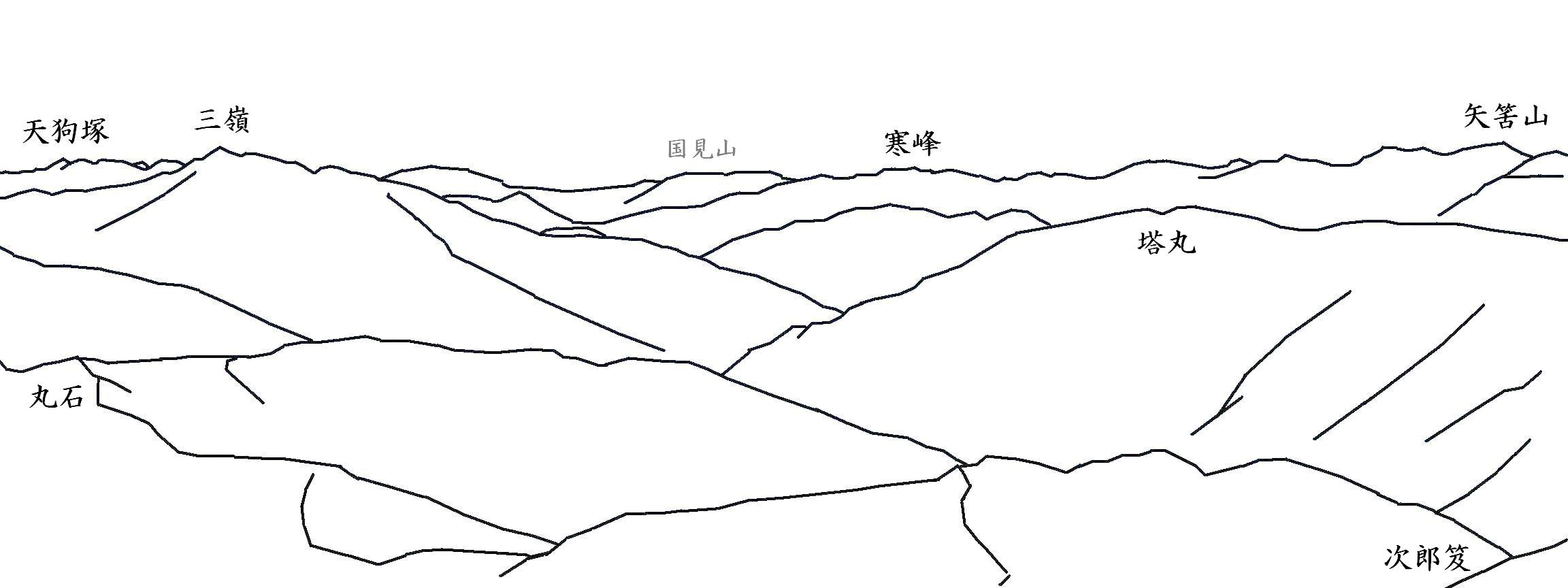 Tsurugi Mountains in the part of Shikoku Mountains, Shikoku, Japan. Looking the WbN from Mount Jirogyu.